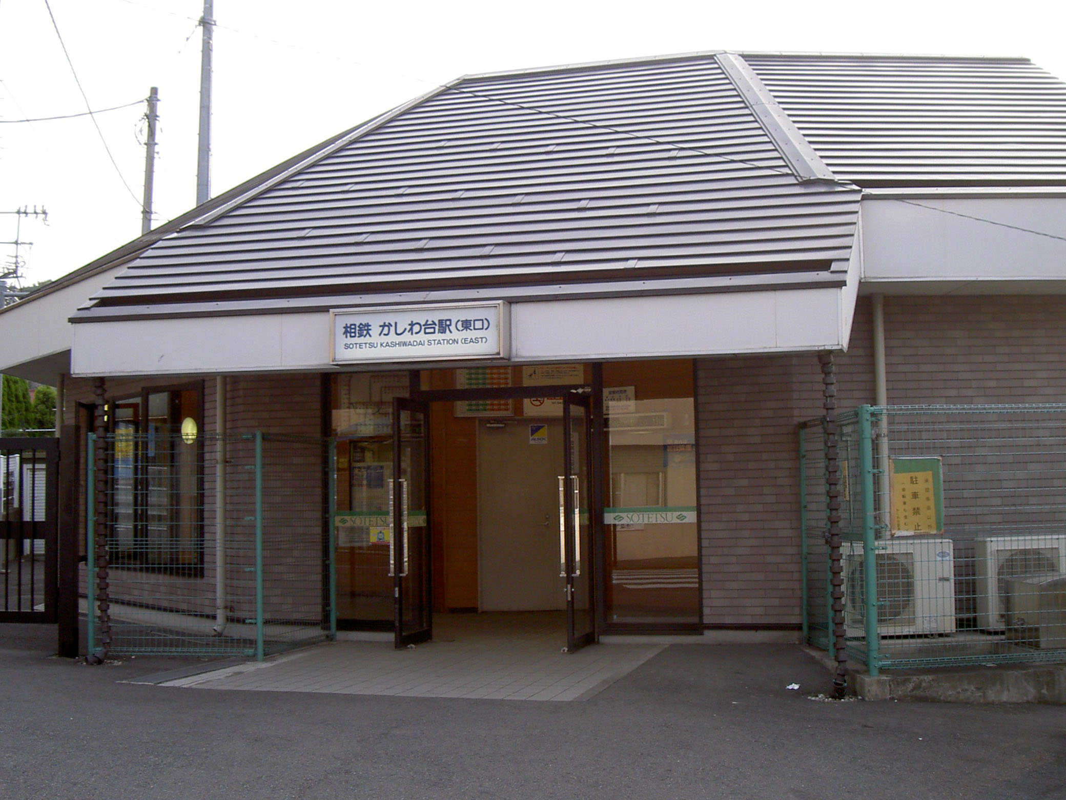 East entrance of Kashiwadai station, Soutetsu line ja: かしわ台駅東口